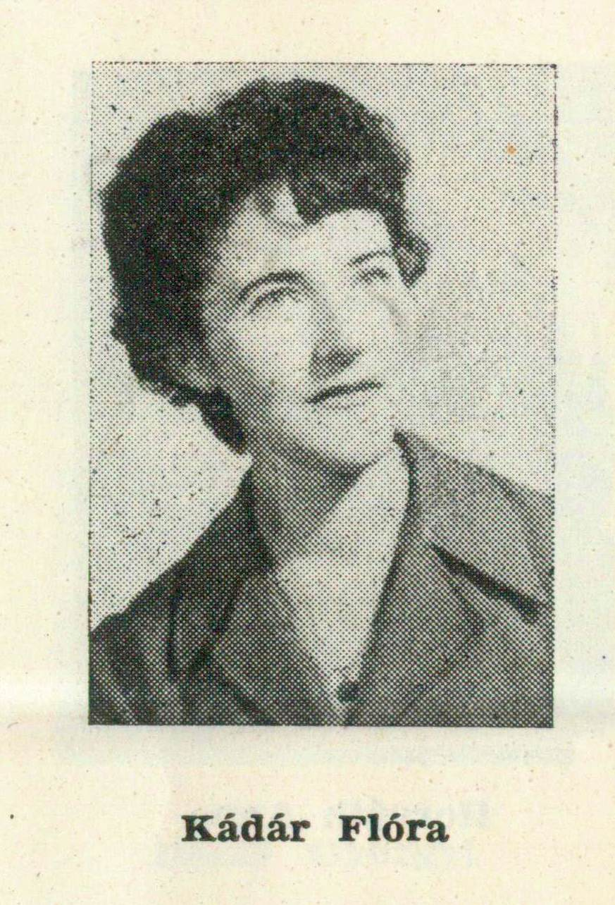 picture from National Theatre of Szeged, 1957/58 yearbook